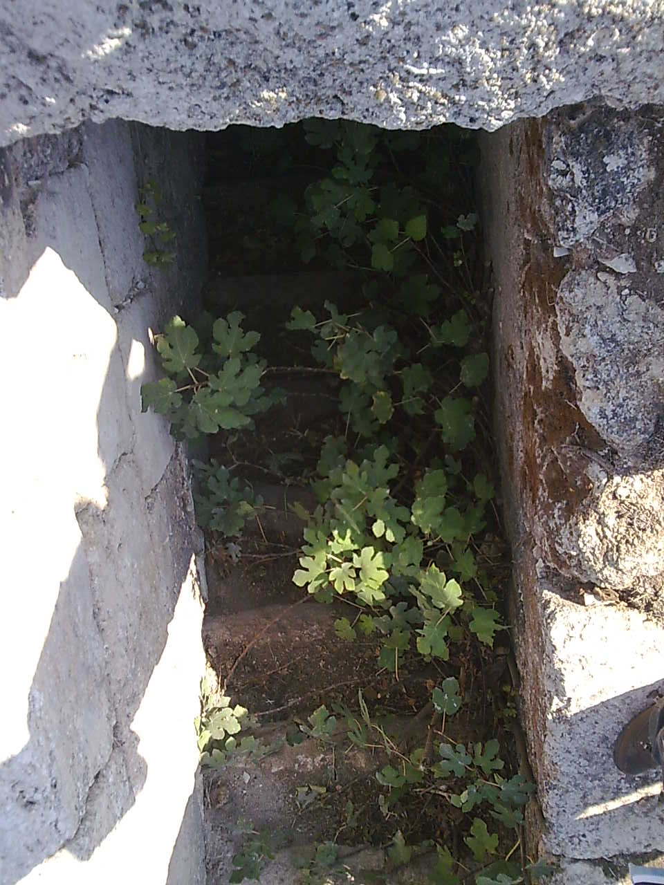 Crusader Stairwell at Tel Hanaton